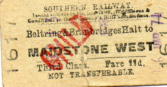 An Edmondson ticket for a child to travel between Beltring & Branbridges Halt to Maidstone West. Printed by the Southern Railway, issued by British Rail on 16 March 1974.